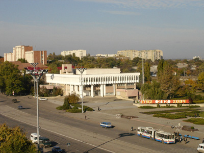 Central street of Tiraspol